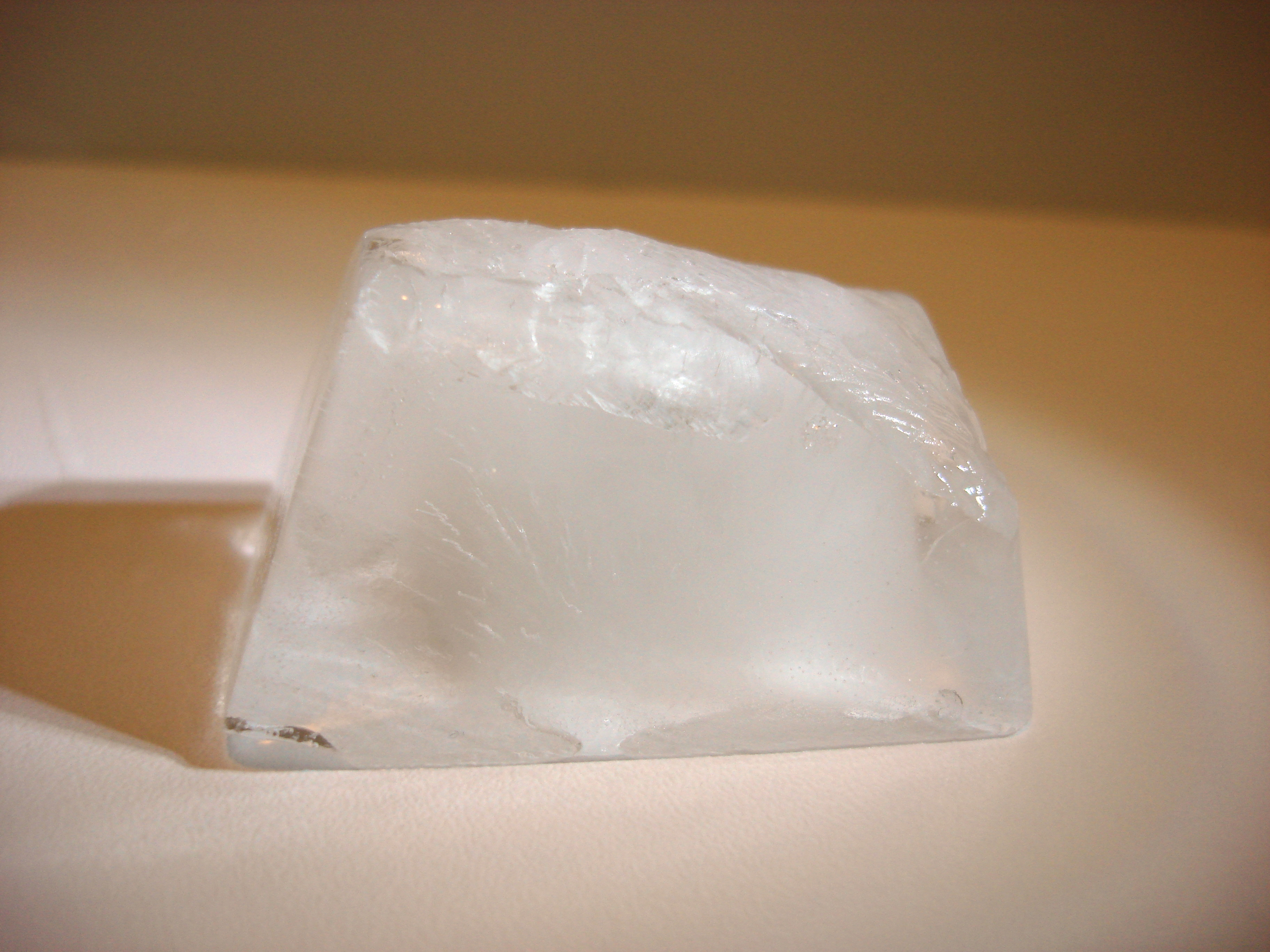 A picture of an ice cube on a table, against a white background. Lighting consisted of a ceiling light and a handheld LCD flashlight. Camera was set on high sensitivity ISO, flash was off (and sunlight was little to none), macro setting was used.